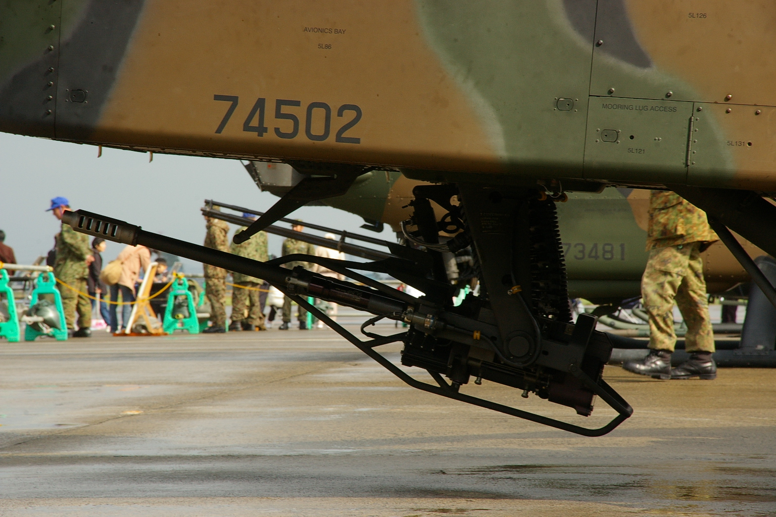 M230 30mm chain gun on AH-64D.